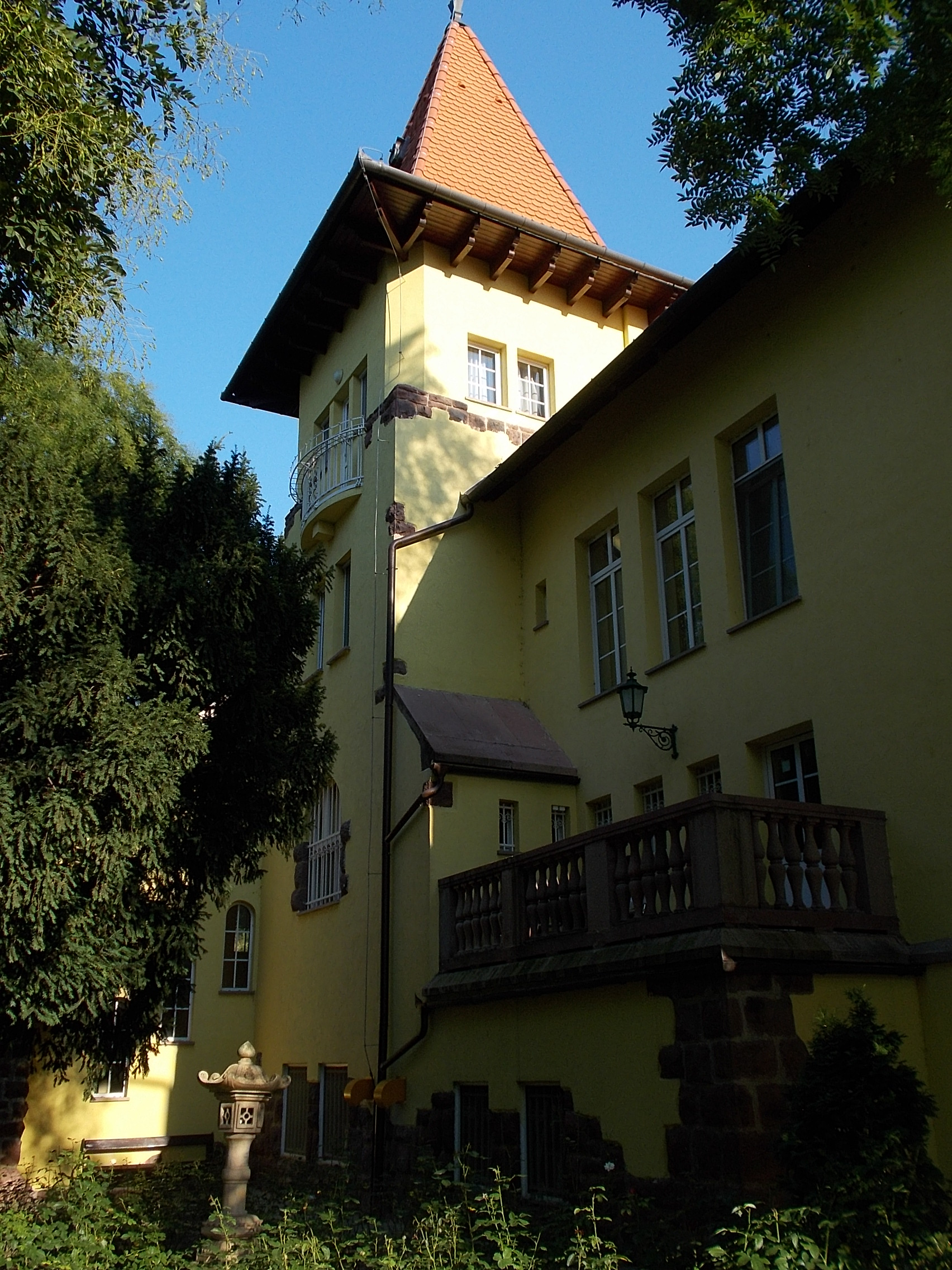 Art Nouveau mansion remodelled to four star hotel. Listed ID 3302. Built in 1926 by Pál Vágó. First owner Imre Fried (local magnat). - Malom Street, Simontornya, Tolna County, Hungary.